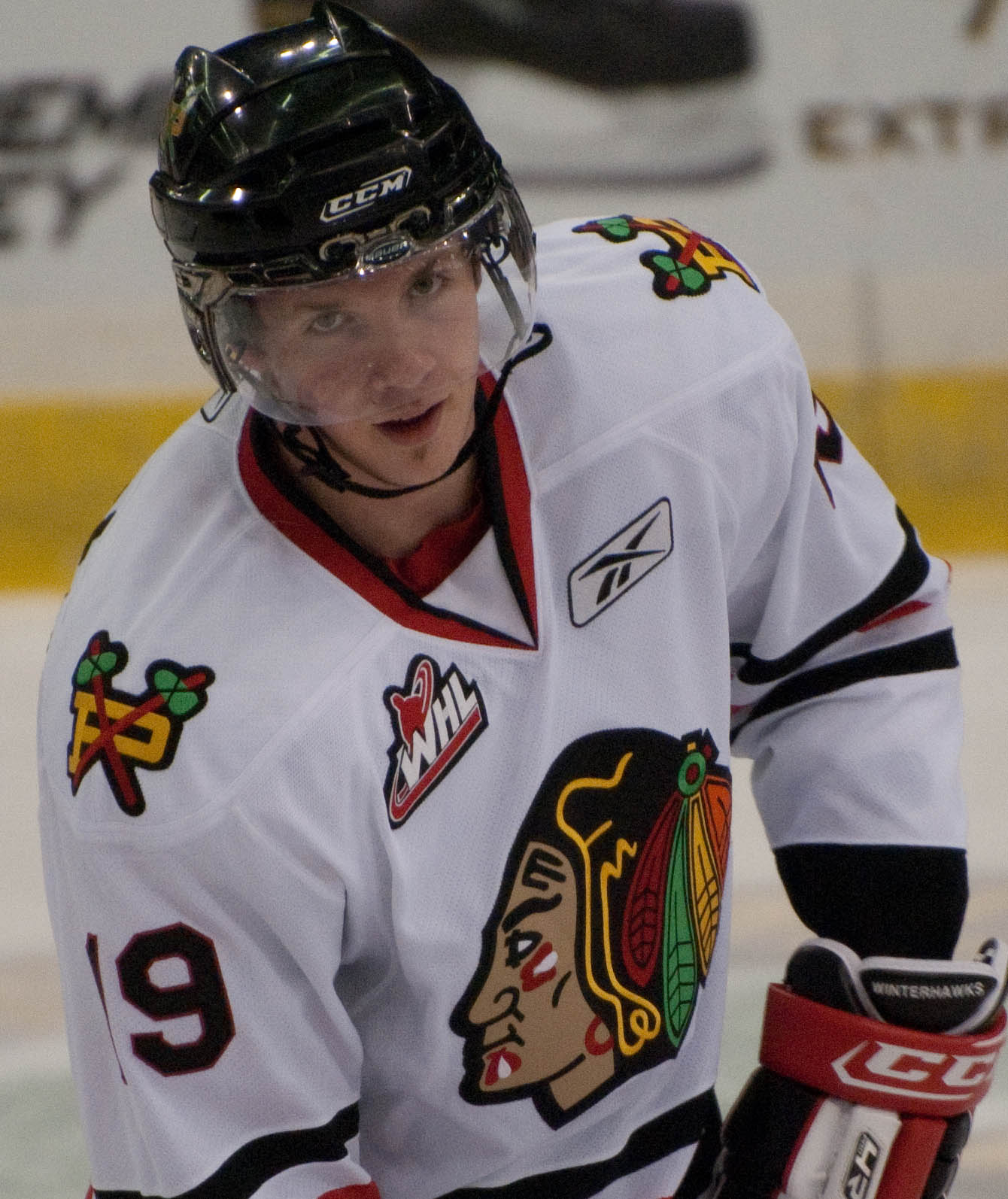 Ryan Johansen during pre-game warmups.